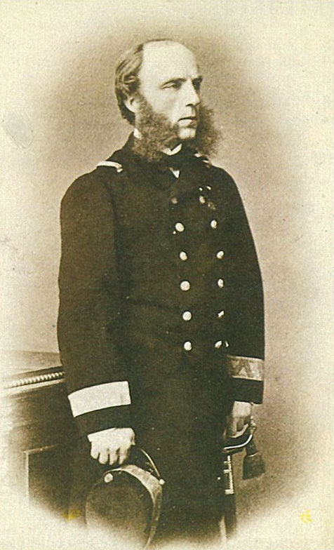 Wilhelm von Tegethoff, picture around 1866